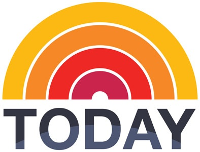 Logo of NBC Today show